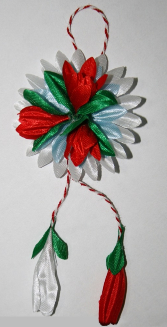 Bulgarian Martenitsa